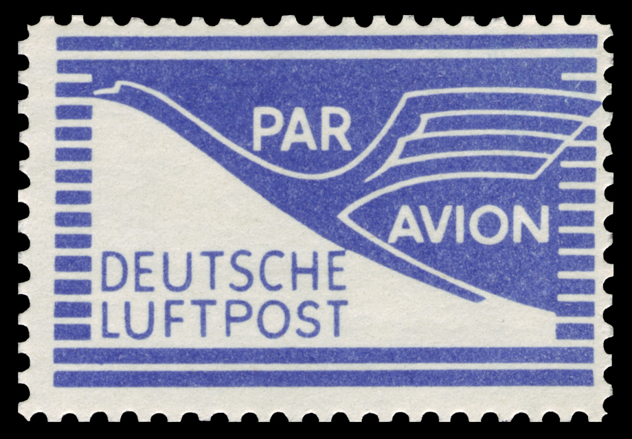 Airmail etiquette Ausgabepreis: ohne Nominalwert First Day of Issue / Erstausgabetag: 14. Dezember 1948 Michel-Katalog-Nr: 1 (Alliierte Besetzung - Bizone - Flugpost Zulassungsmarke)